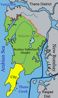 City districts of Bombay, India.